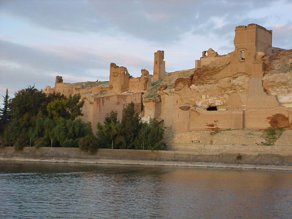 Jaabar Castle